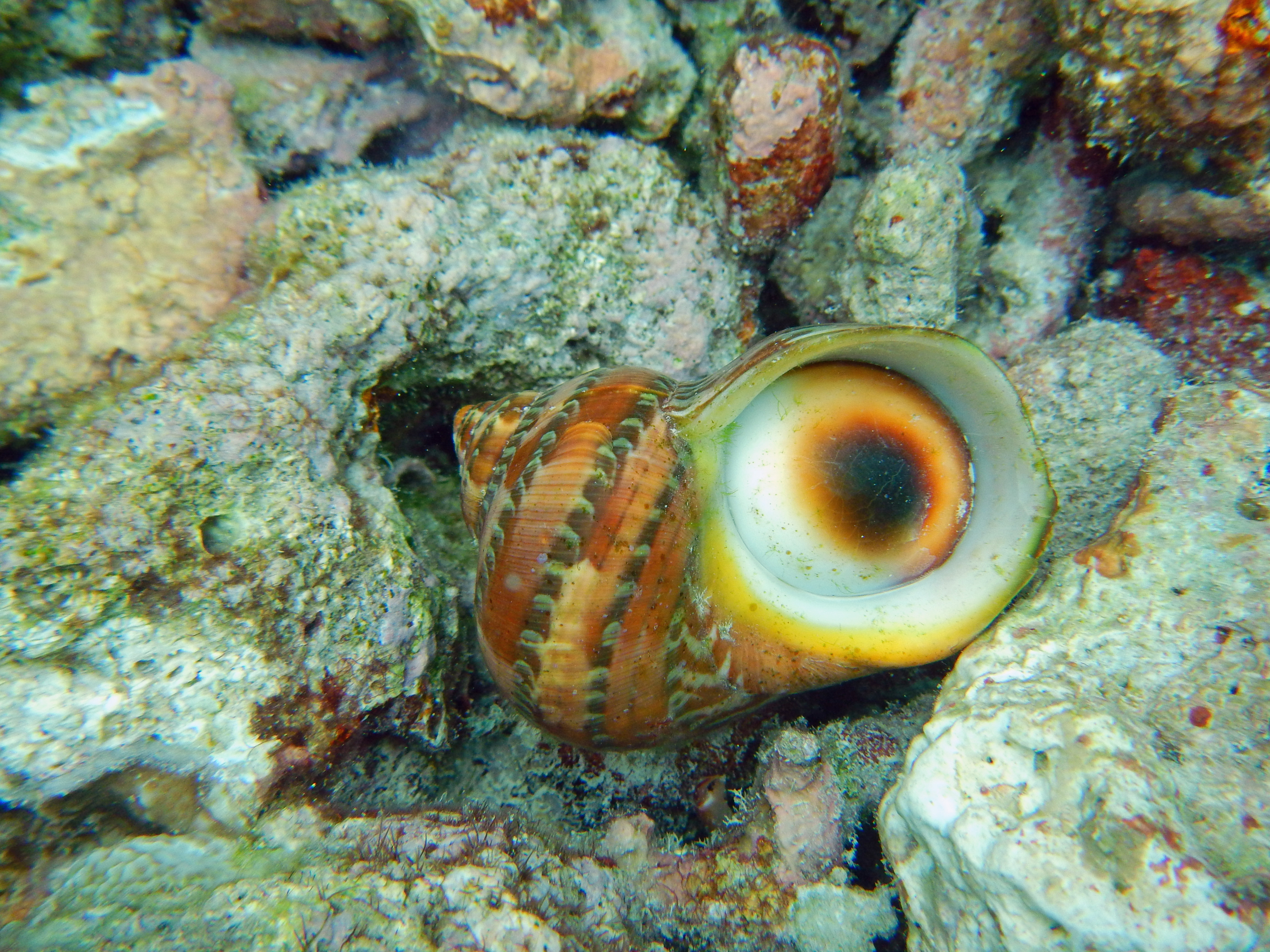 A tapestry turban (Turbo petholatus) in Maldives (Voavah, Baa atoll).